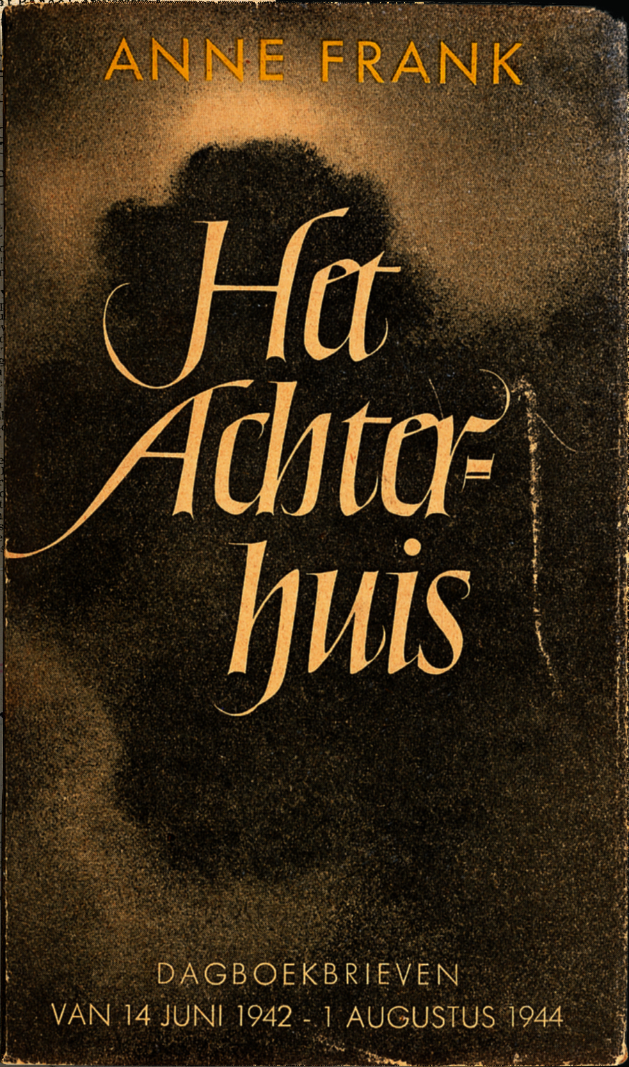 Cover of the first edition of Anne Frank’s ‘Het Achterhuis’ from 1947